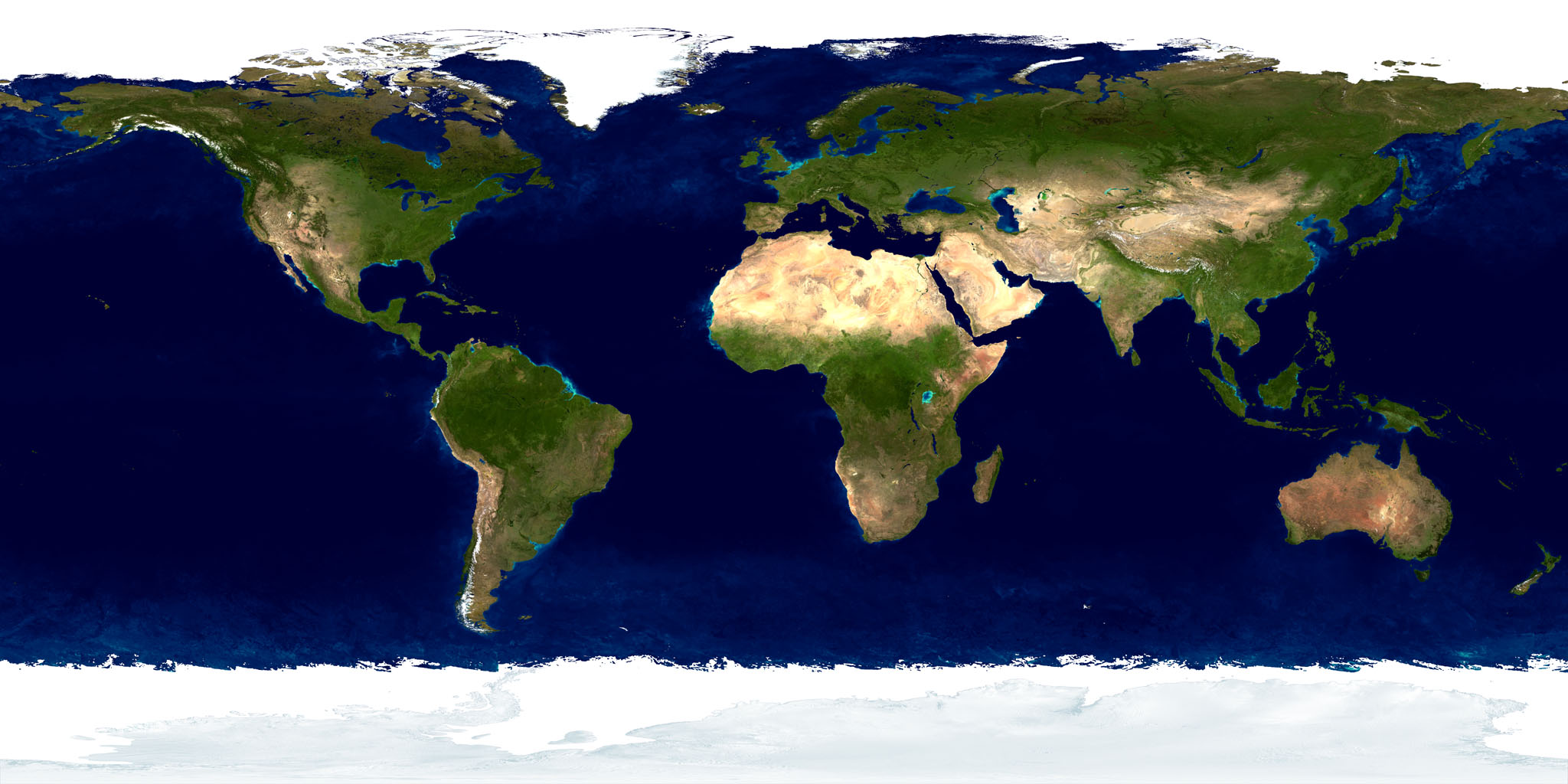 The blue marble: land surface, ocean color and sea ice.